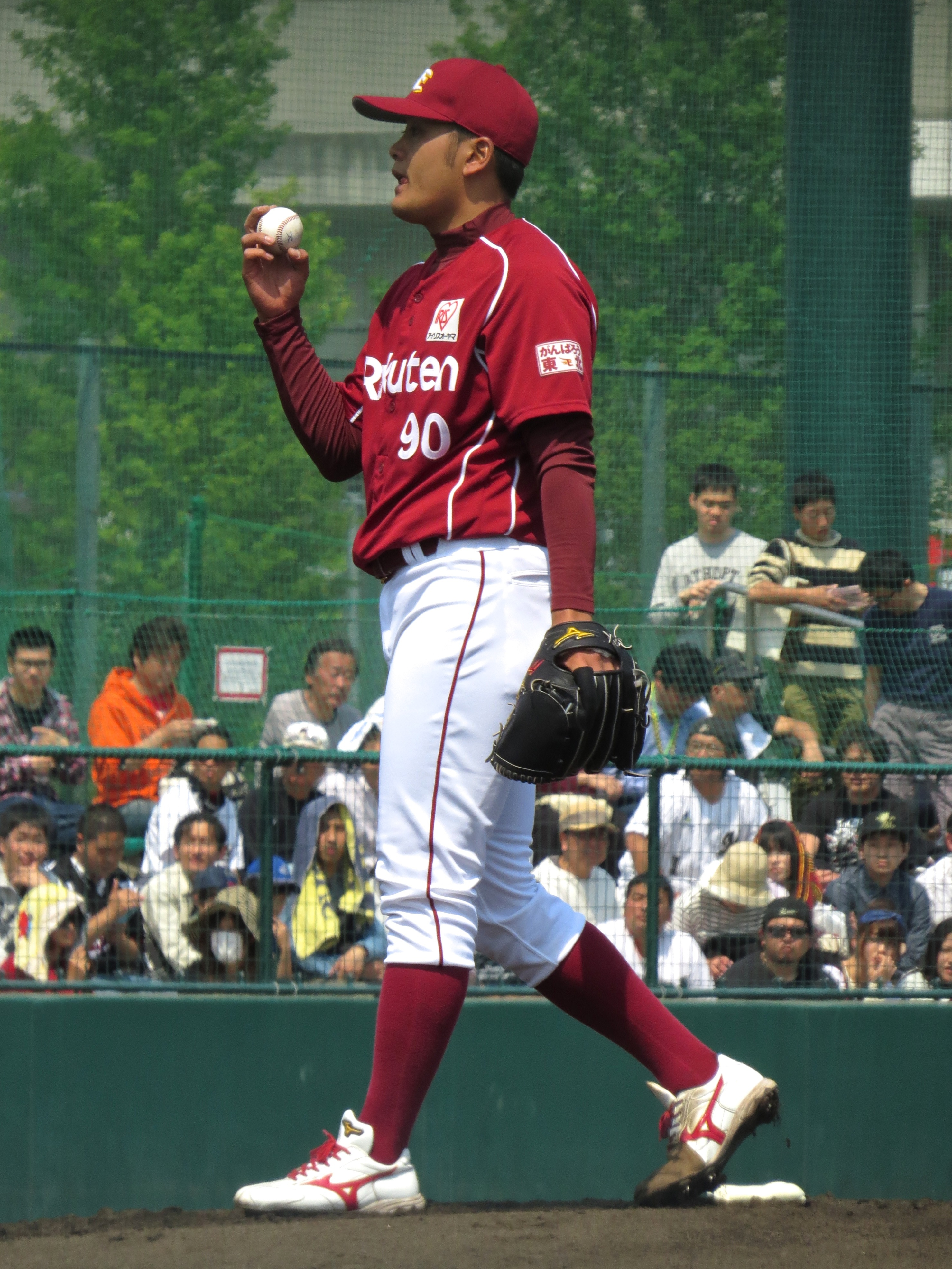 Sho Miyagawa, pitcher of the Tohoku Rakuten Golden Eagles, at Lotte Urawa Baseball Ground.